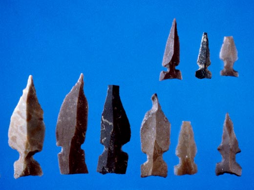 Gesher Pre-Pottery Neolithic A flint arrowheads in Gesher (archaeological site) in Israel .